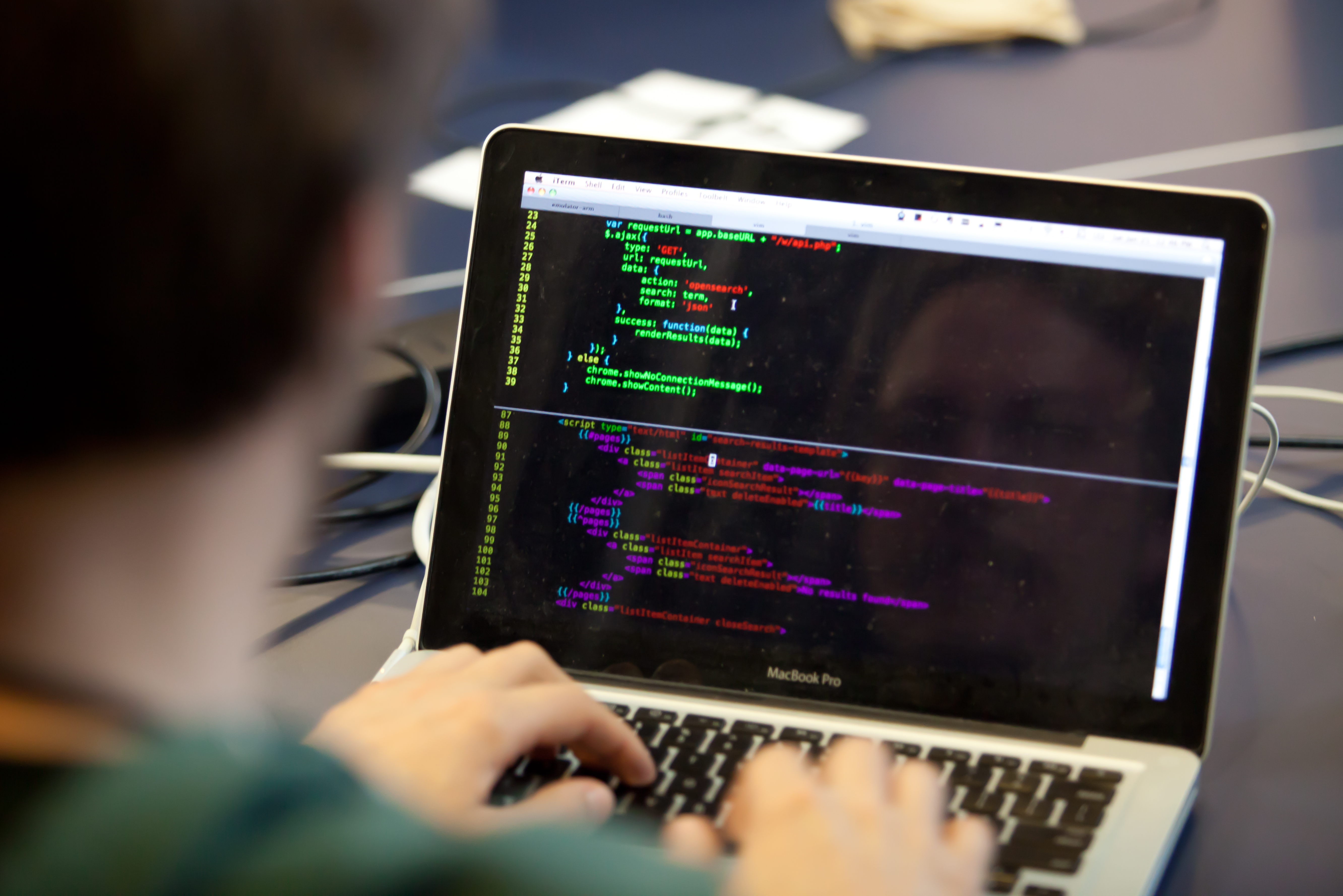 A reflection of a man typing on a laptop computer